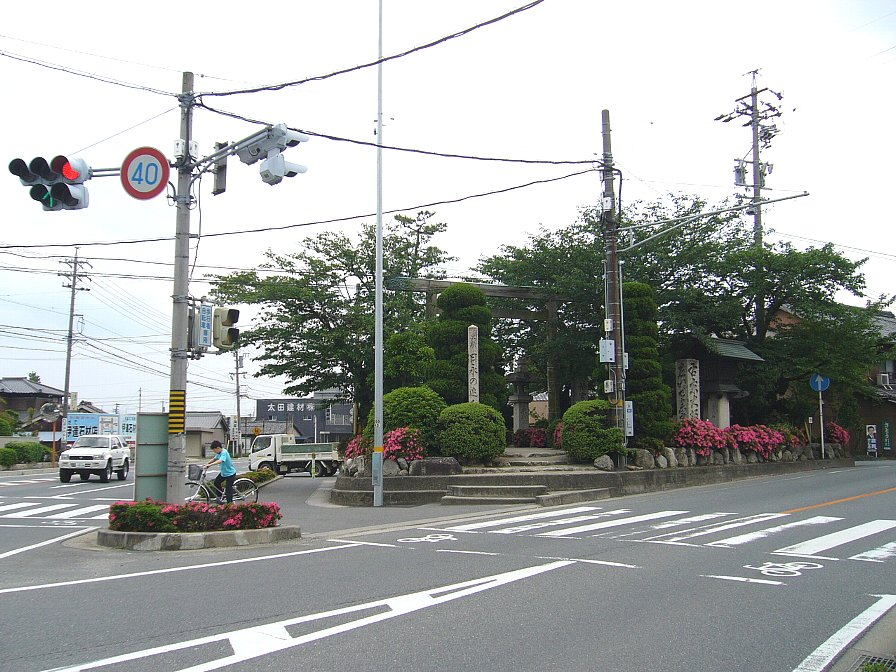 Oiwake Station (Mie)